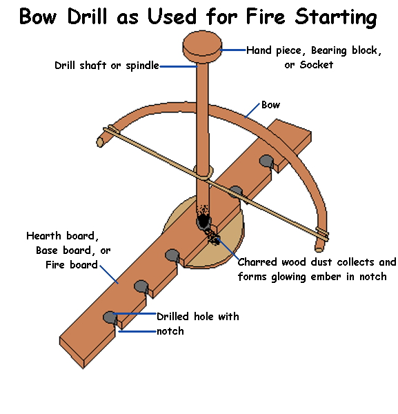 This is an annotated version of the drawing supplied by User:Reddi and released to Wikimedia under GFDL in the file Bow Drill.png